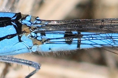 Thorax and following abdomen of a male Common Blue Damselfly (Enallagma cyathigerum) with the named-giving marking in german on second abdomen segment, which reminds of a tanged bowl. The marking is described sometimes also as mushroom-shaped.